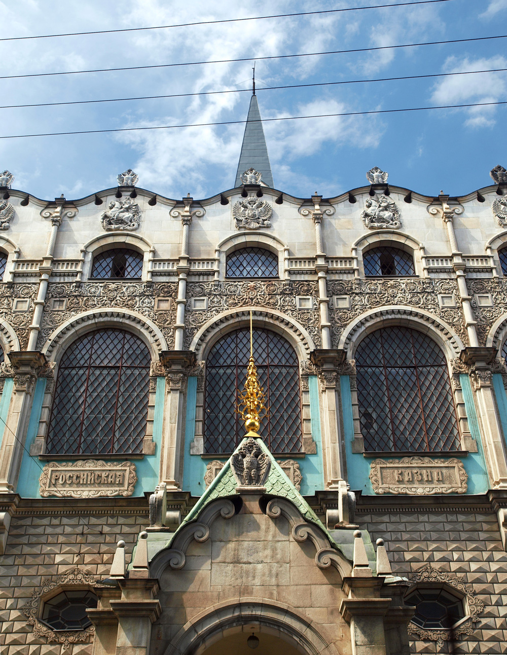 Nastas'yinsky lane, Moscow. Bank building completed in 1914, design by Vladimir A. Pokrovsky, construction architect Bogdan Nilus.